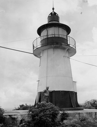 Hams Bluff Light is a lighthouse on Saint Croix, U.S. Virgin Islands. It was first lit in 1915. 17°46′9″N 64°52′17″W / 17.76917°N 64.87139°W